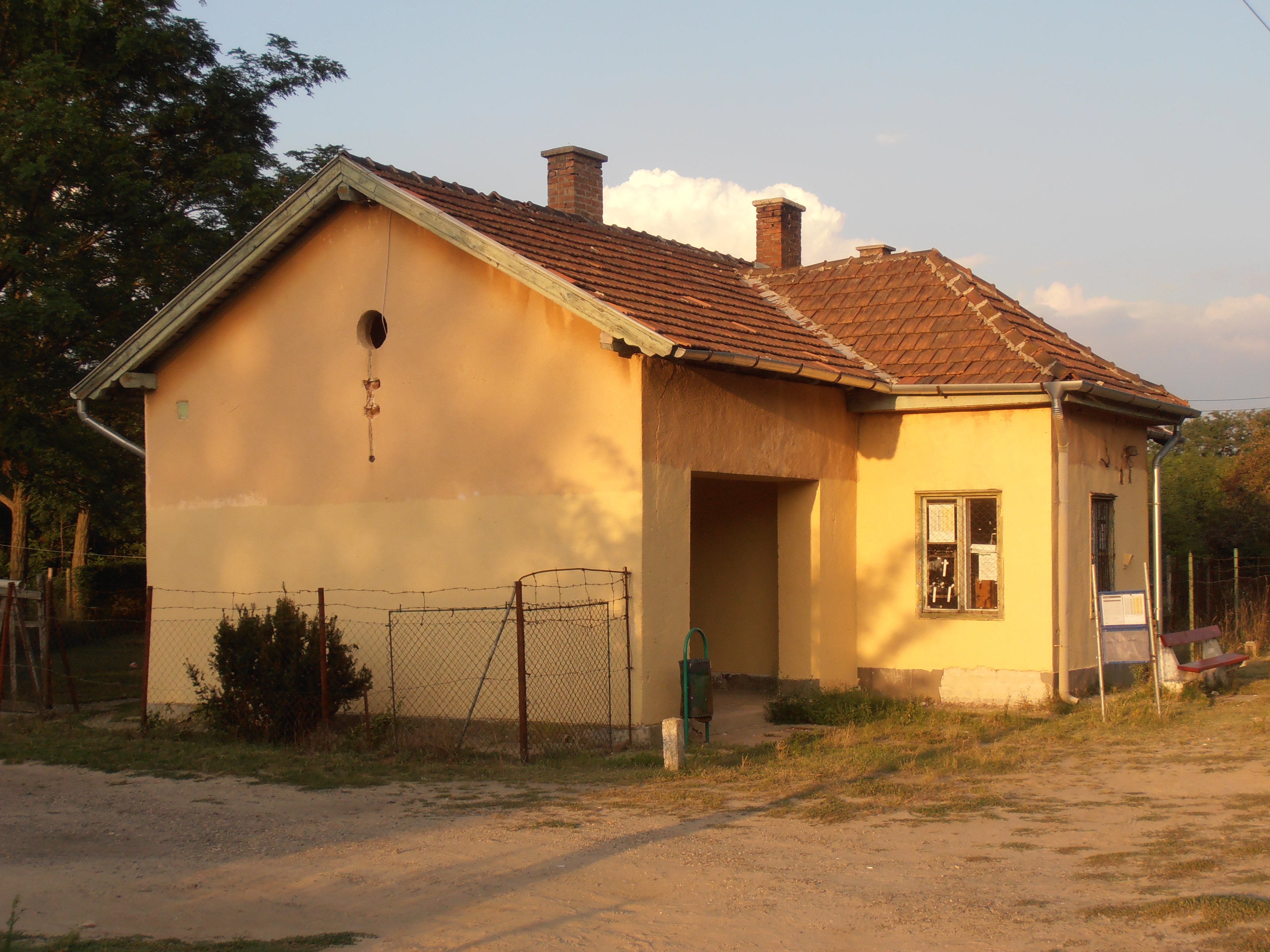 Csomád railway station, Hungary